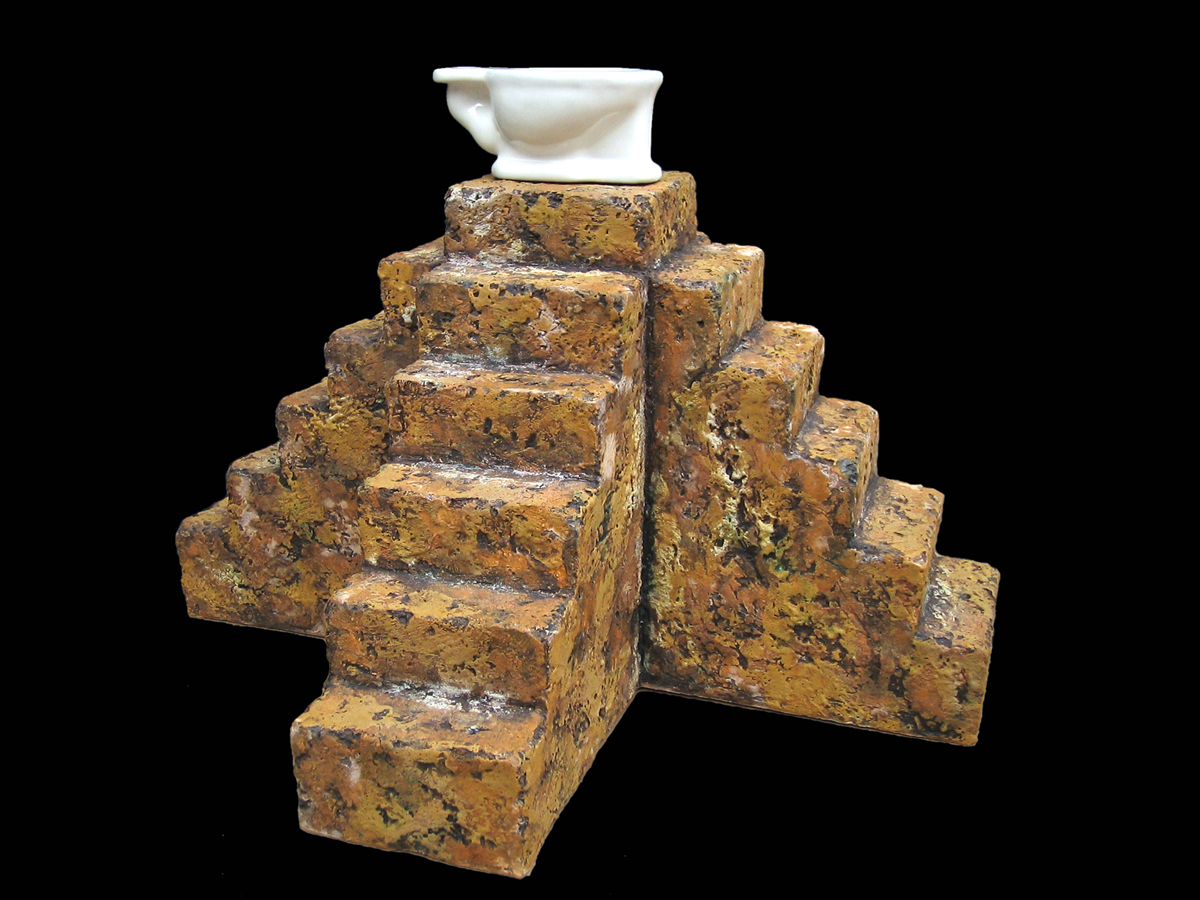 Ceramic sculpture made by the Cuban contemporary artist Carlos Enrique Prado, Collection of the National Museum of the Cuban Contemporary Ceramic